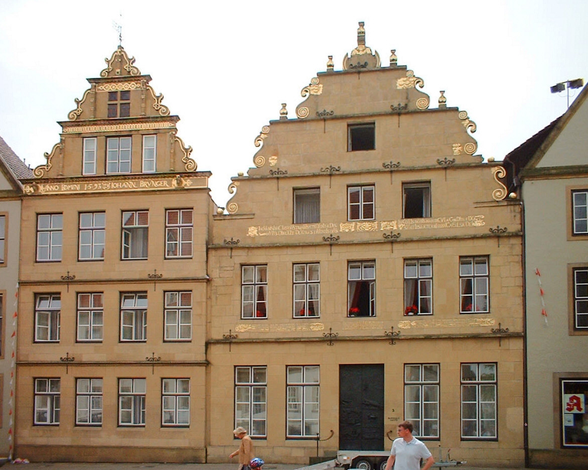 At the Old Market Square in Bielefeld taken by myself GNU-FDL